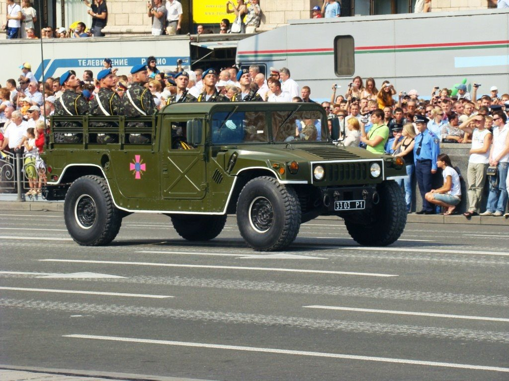 Ukrainian Humvee HMMWV М1097А2 during the Independence Day parade in Kiev, Ukraine in 2008.